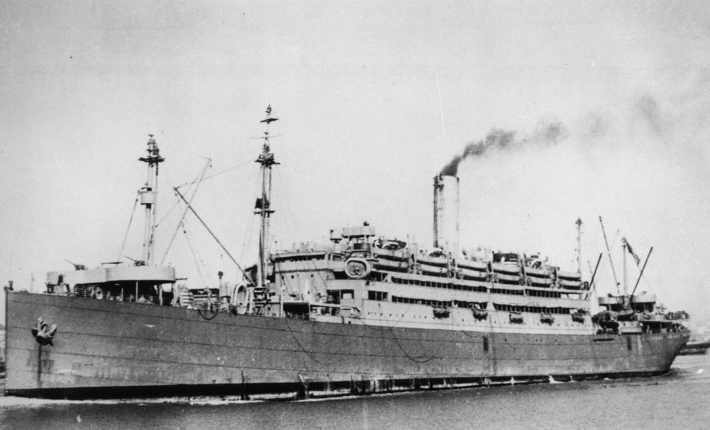 US Army transport ship Republic arriving in Brisbane with the Pensacola convoy. (Description supplied with photograph.)